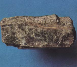 Thortveitite